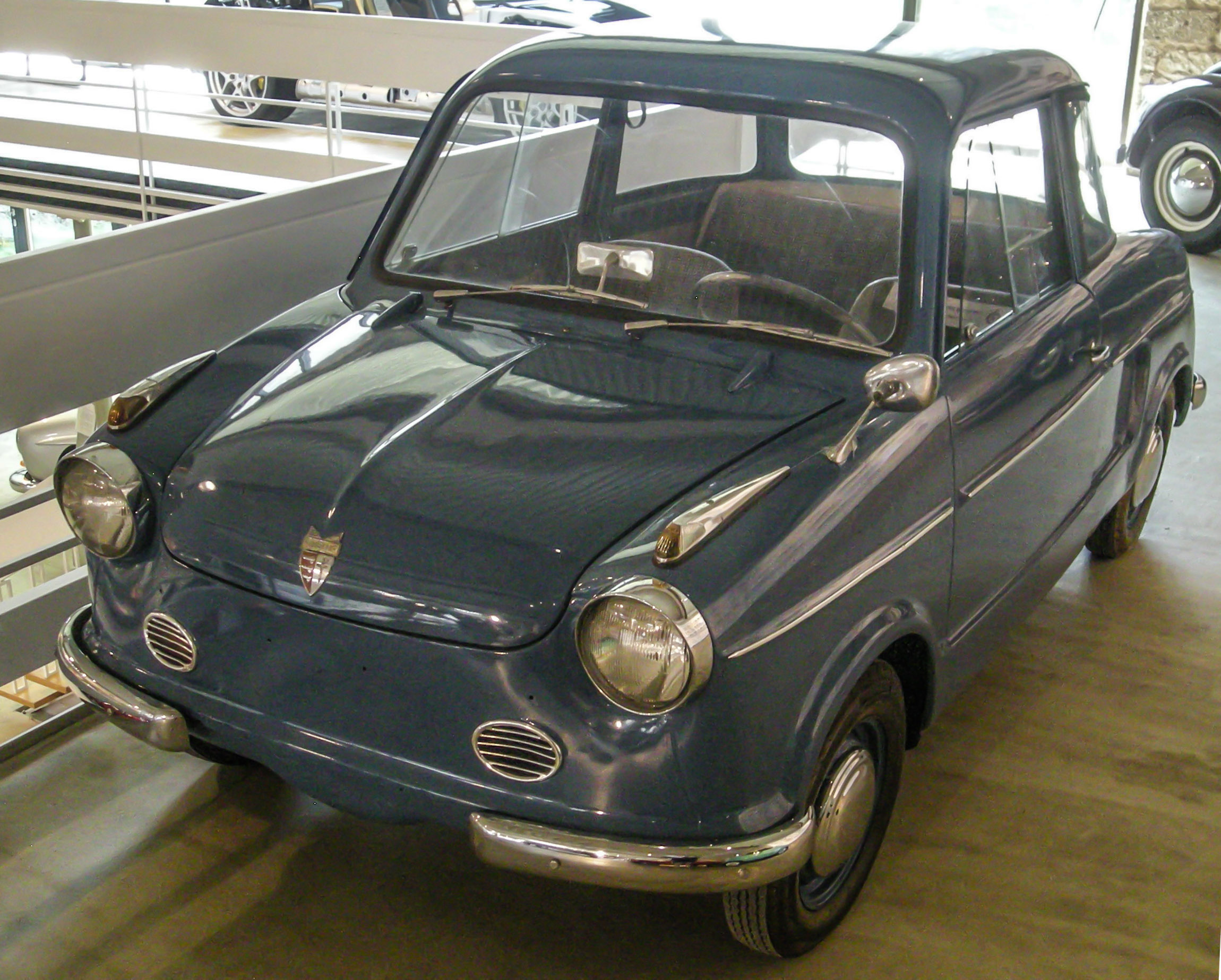 A ca. 1958 NSU Prinz I inside the Deutsches Automuseum in Langenburg, Baden-Württemberg (Germany).